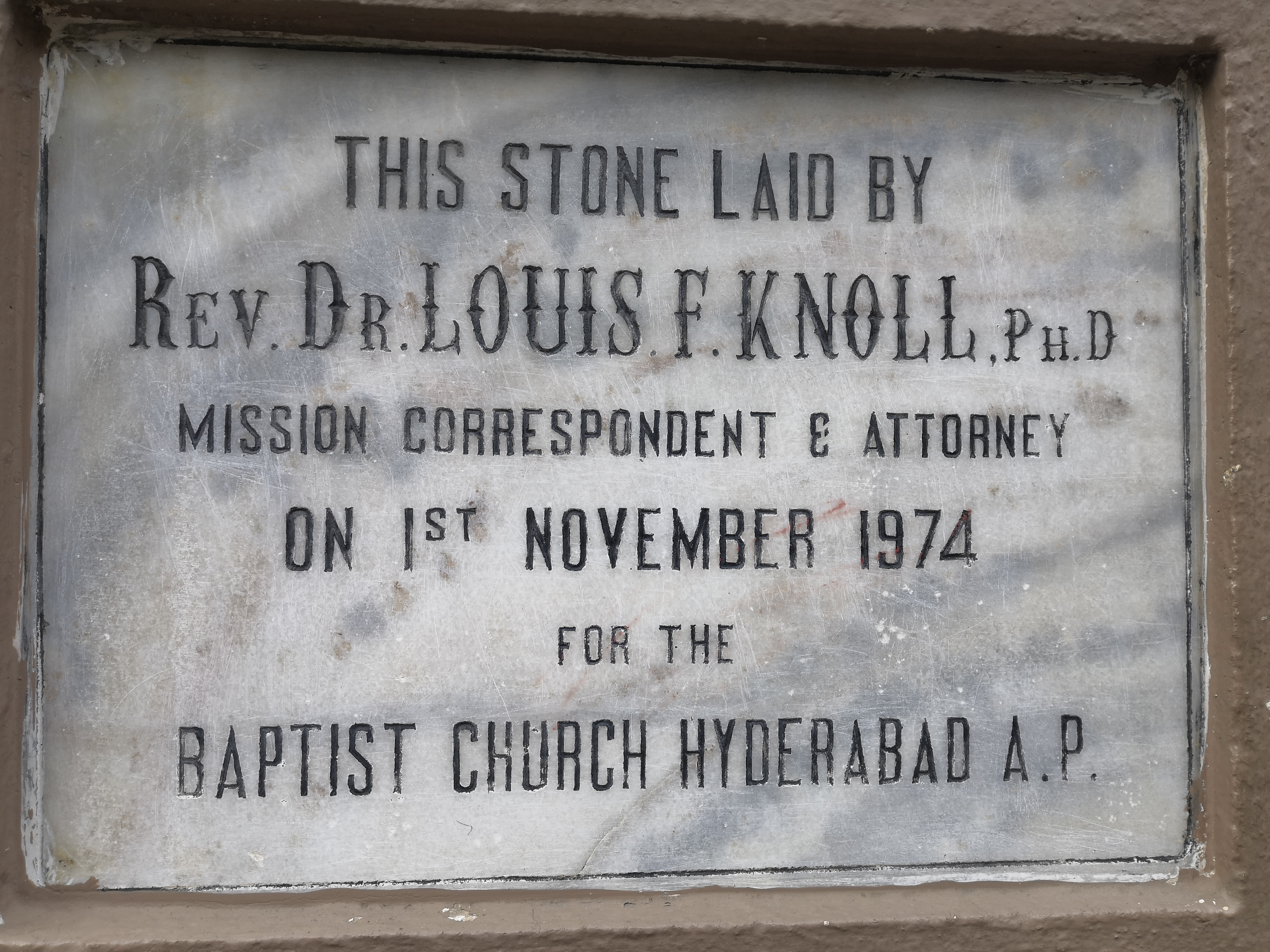 Knoll's inauguration of Baptist Church, Secunderabad on 1st November 1974